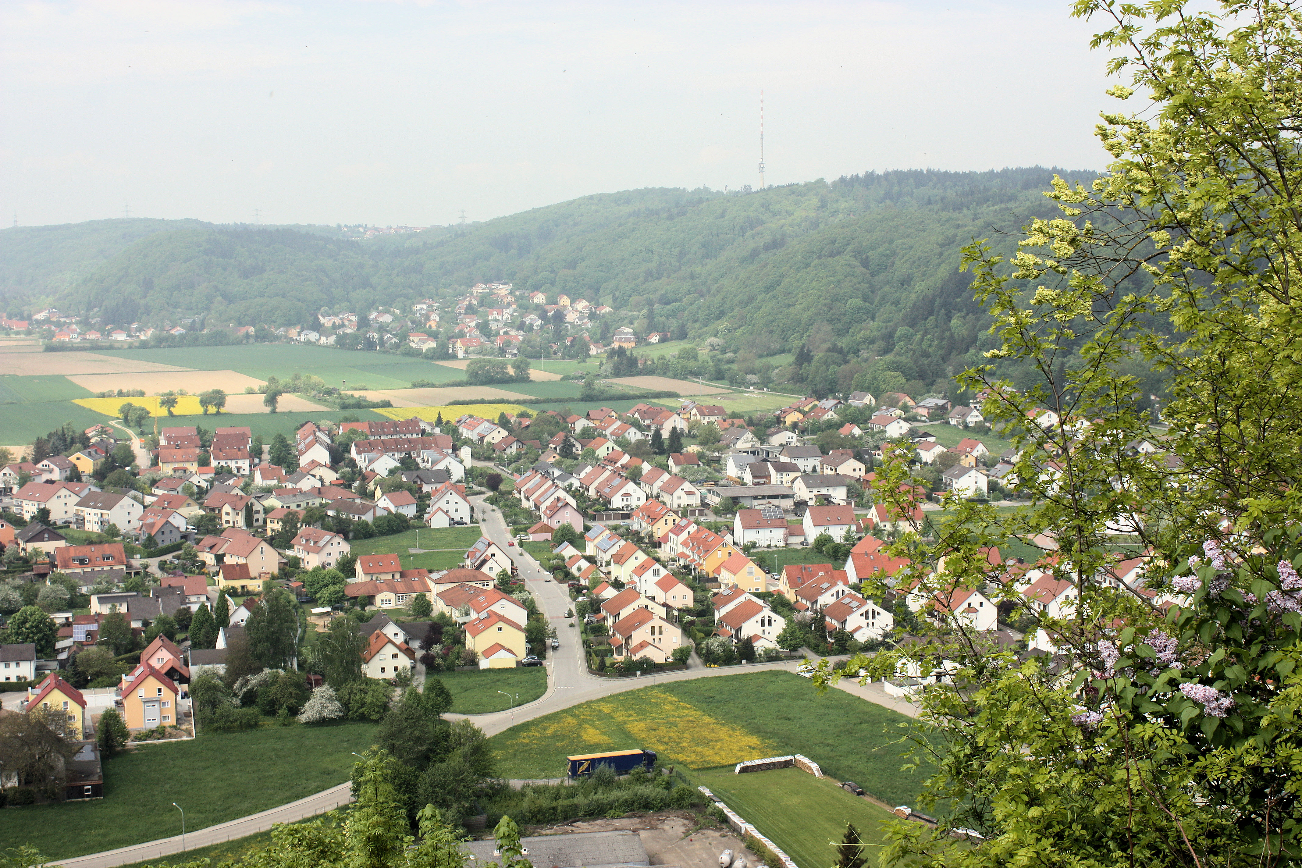 Donaustauf, view from ruined castle to the village Tegernheim